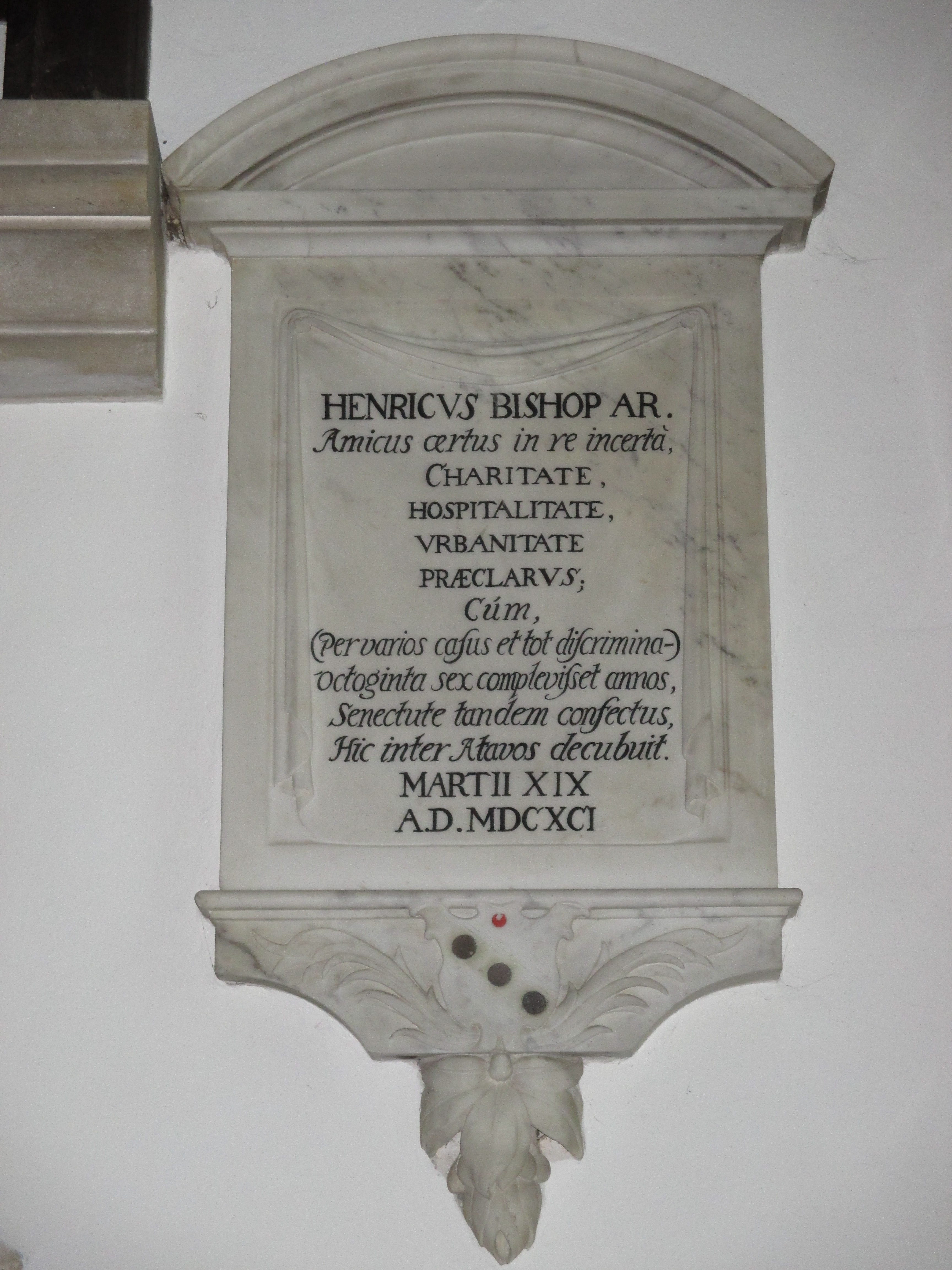 Memorial tablet on the north wall of the north chapel, St Peter's Church, Henfield, West Sussex. The inscription can be translated thus: Henry Bishop, ar[miger]. A sure friend in unsure times, remarkable for his charity, hospitality, and urbanity; when, through various adventures and many crises, he completed eighty-six years, his old age being at an end, he was laid here among his ancestors. 19th March A.D. 1691.